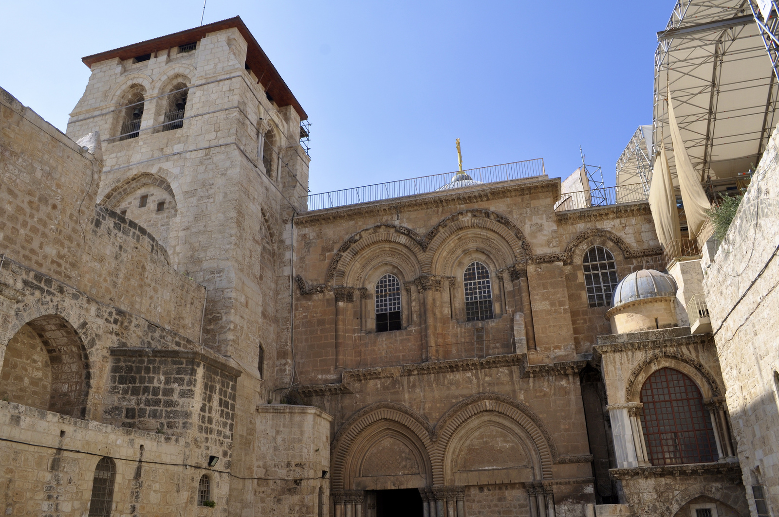 Church of the Holy Sepulchre